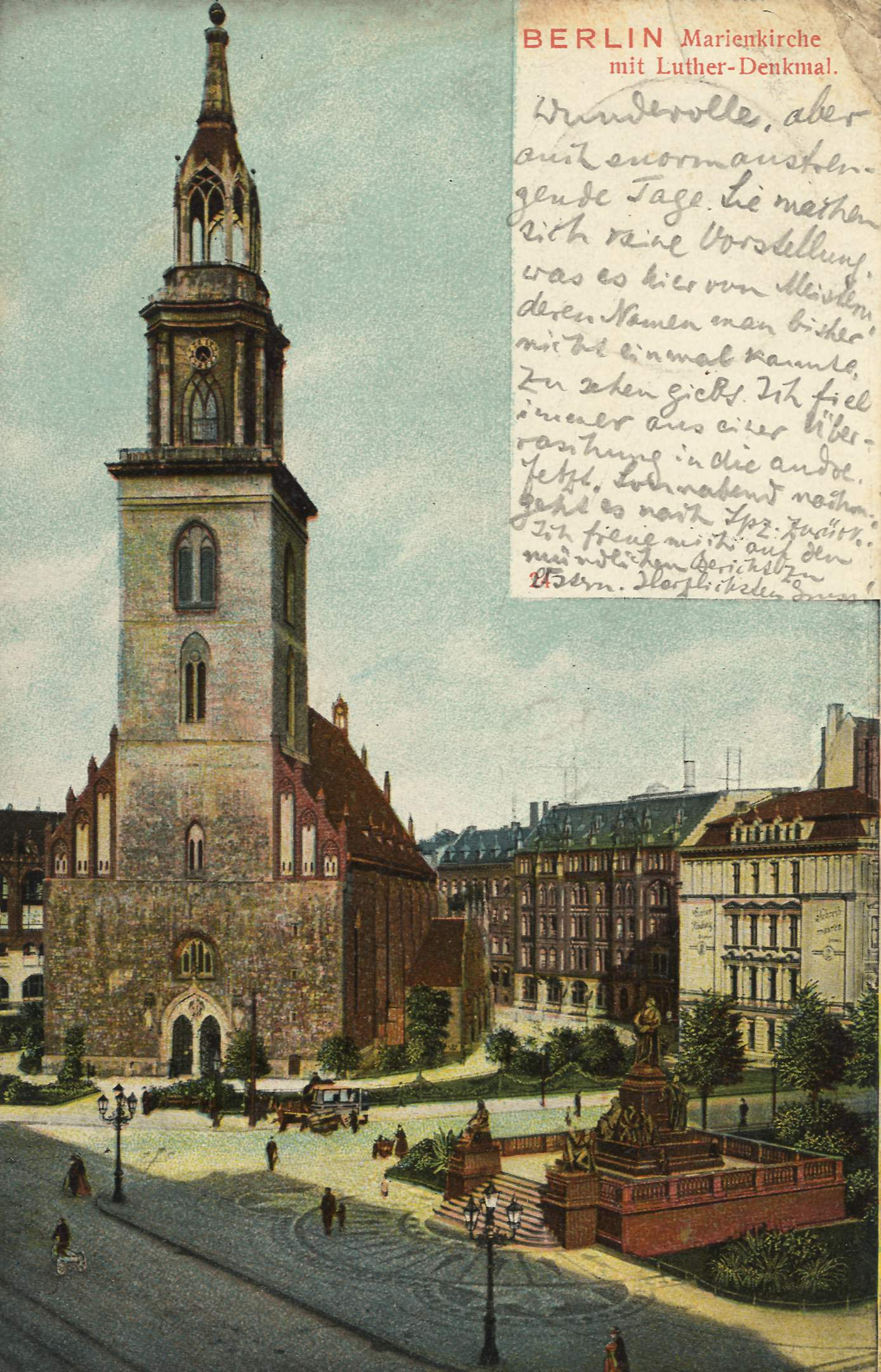 This is an old postcard of the year 1906, showing the St. Marien church in Berlin-Mitte. The Luther memorial in front of the church isn't complete anymore, since the area was hit by bombing raids during WW2. It could be fully reconstructed, because the sculpture itself is still standing.